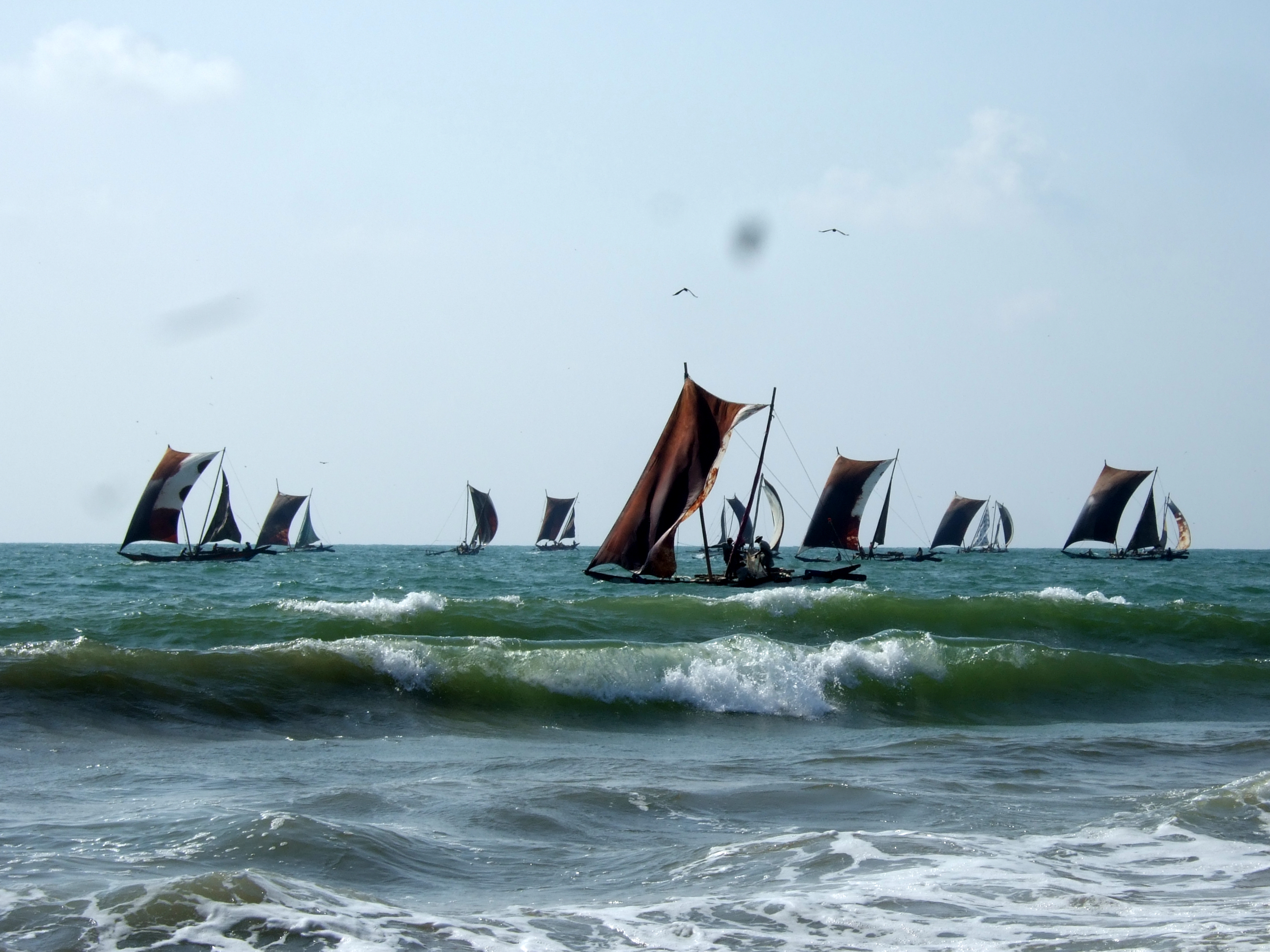 Boats near Negombo beach, Sri Lanka.